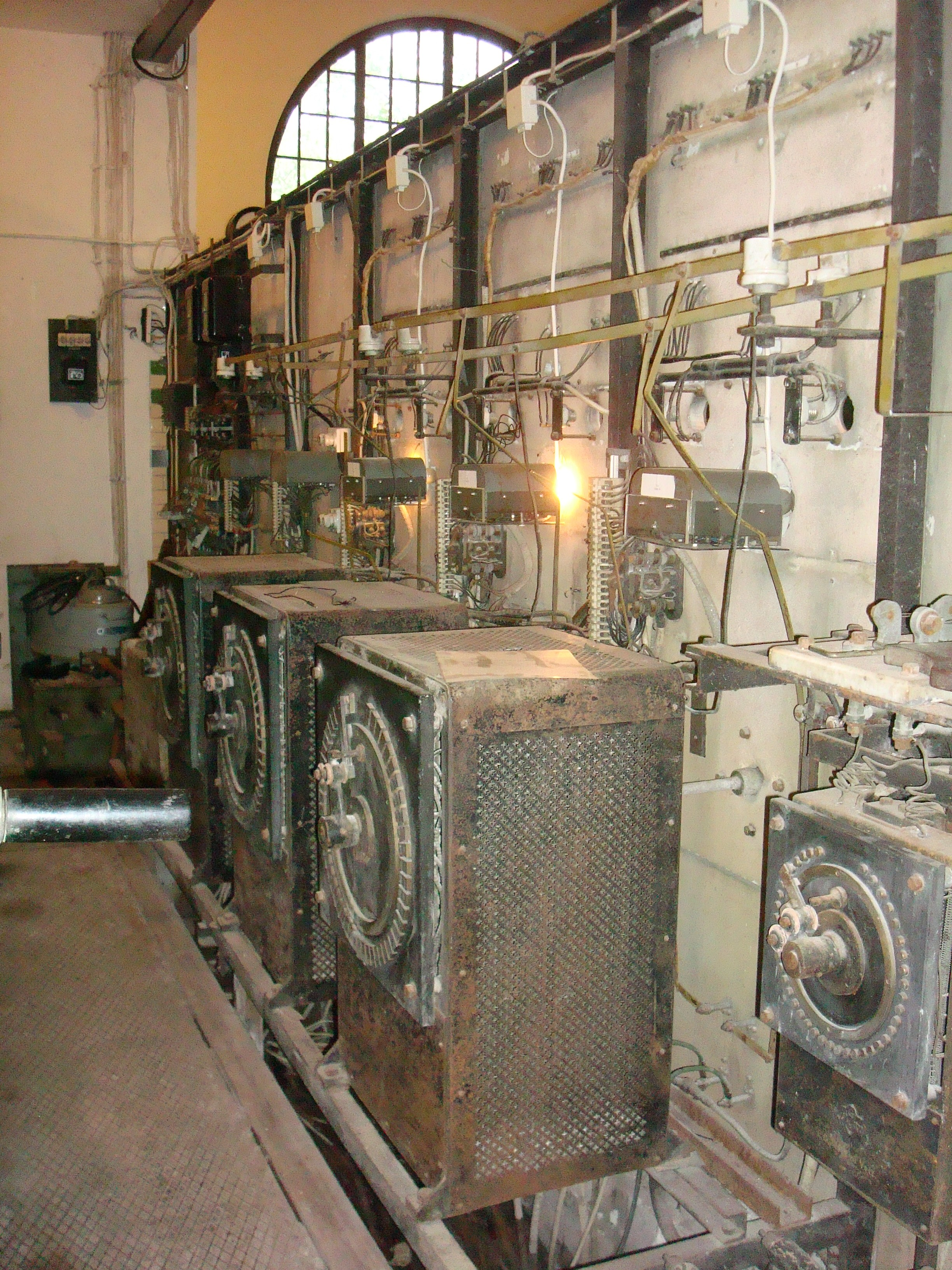 Pictures on the power station in Huskvarna.